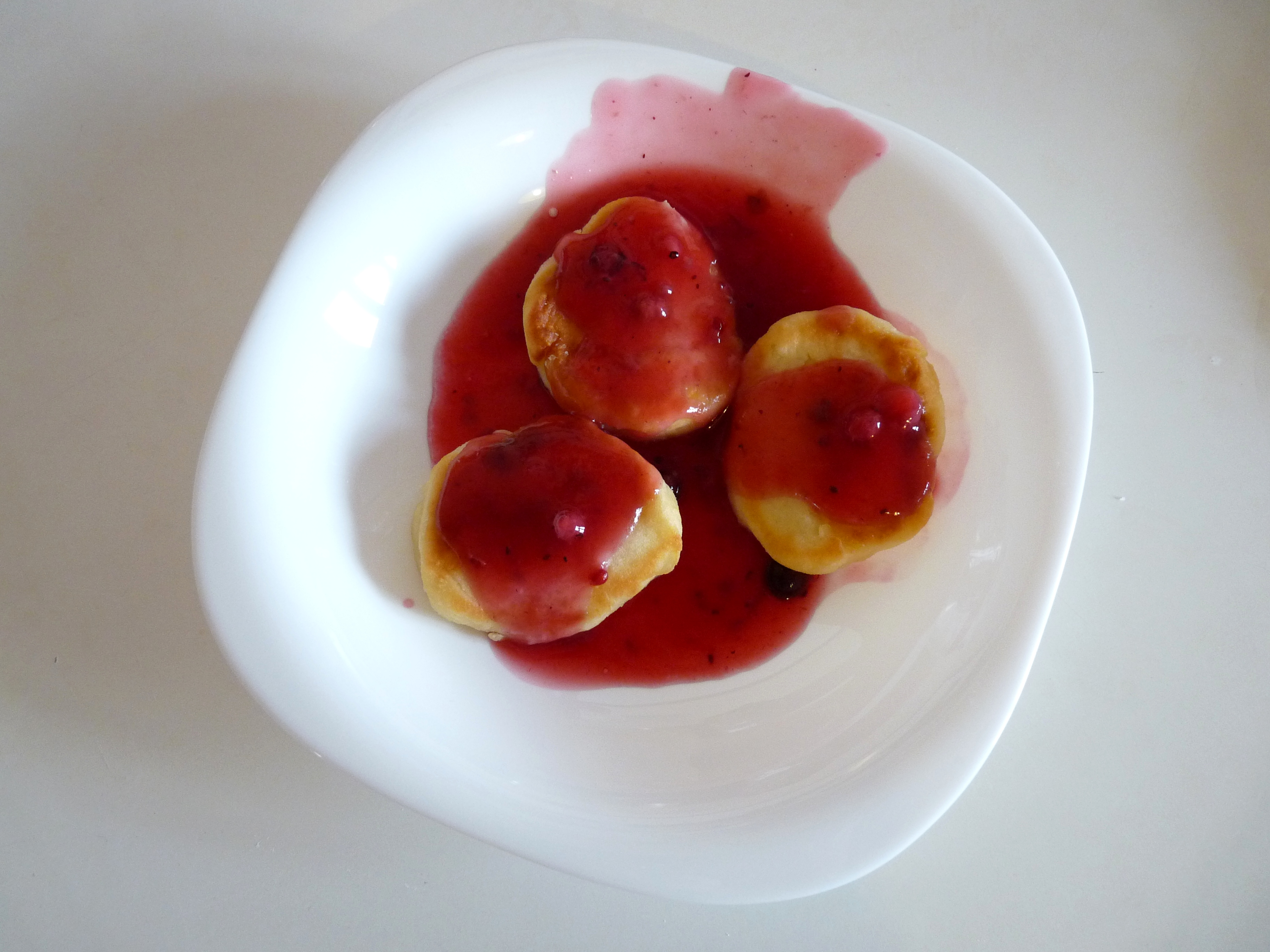 Russian Syrniki with forest berries Kissel'